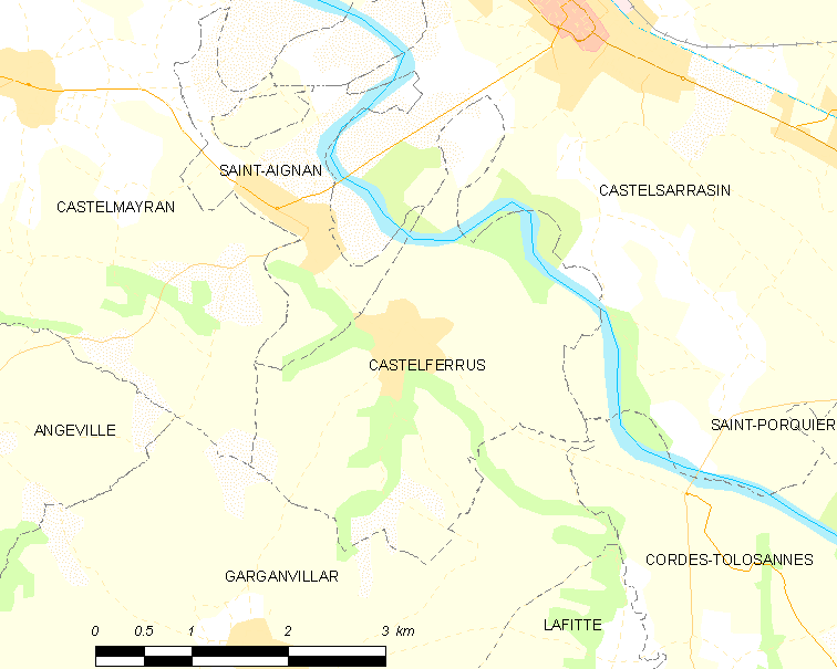 Map of French municipality Castelferrus